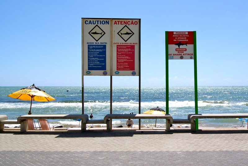 Signs warning of shark attacks at Boa Viagem Beach in Recife, Brazil.